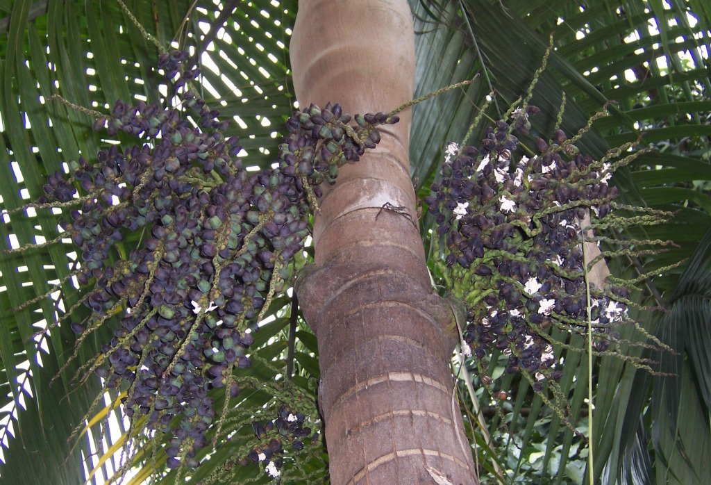 Reunion white palm-tree(Dictyosperma album) - fruits, Réunion island